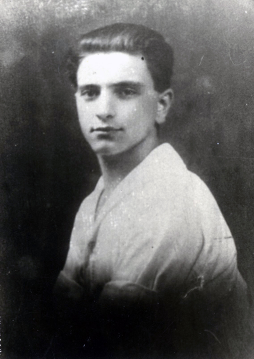 Photograph